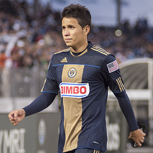 Picture of soccer player Roger Torres.